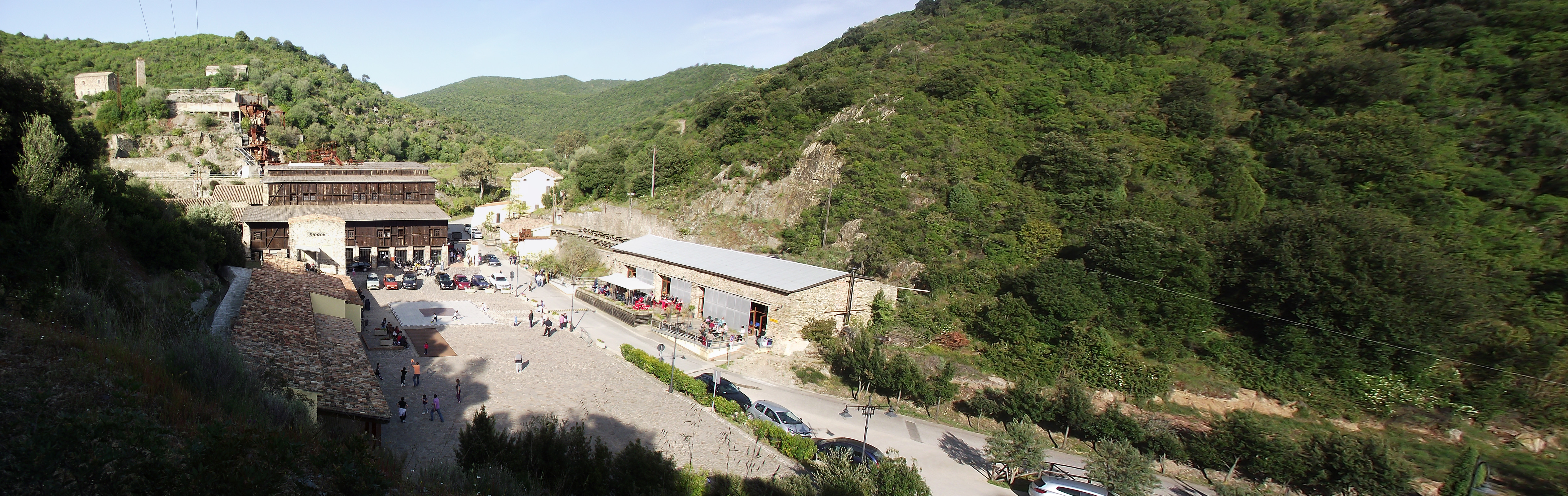 View of the former metalliferous mine of Rosas, in Narcao, Sardinia, Italy, recovered for tourist and archaeological purposes